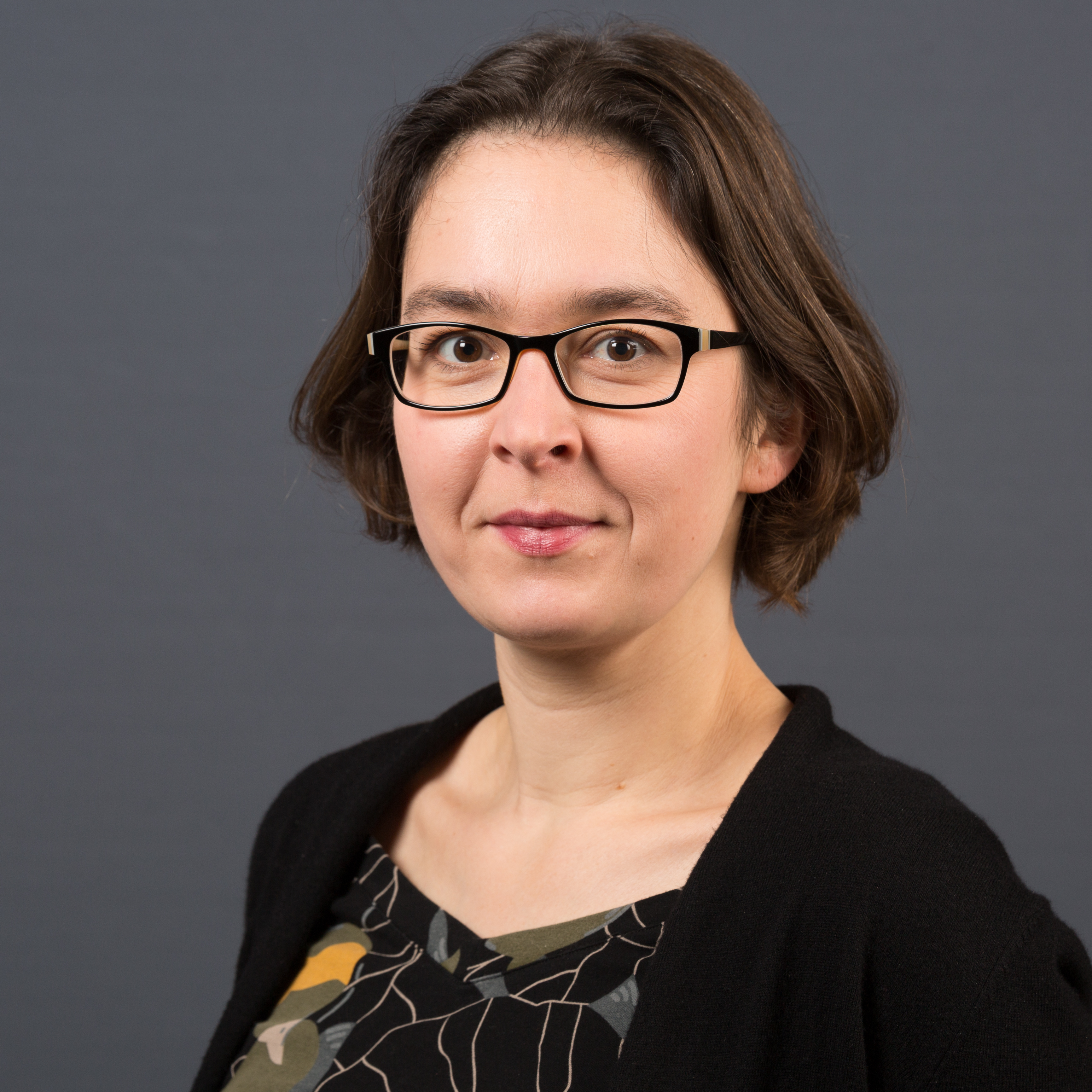 Claudia Maicher, Green party, Member of the Parliament of the Free State of Saxony